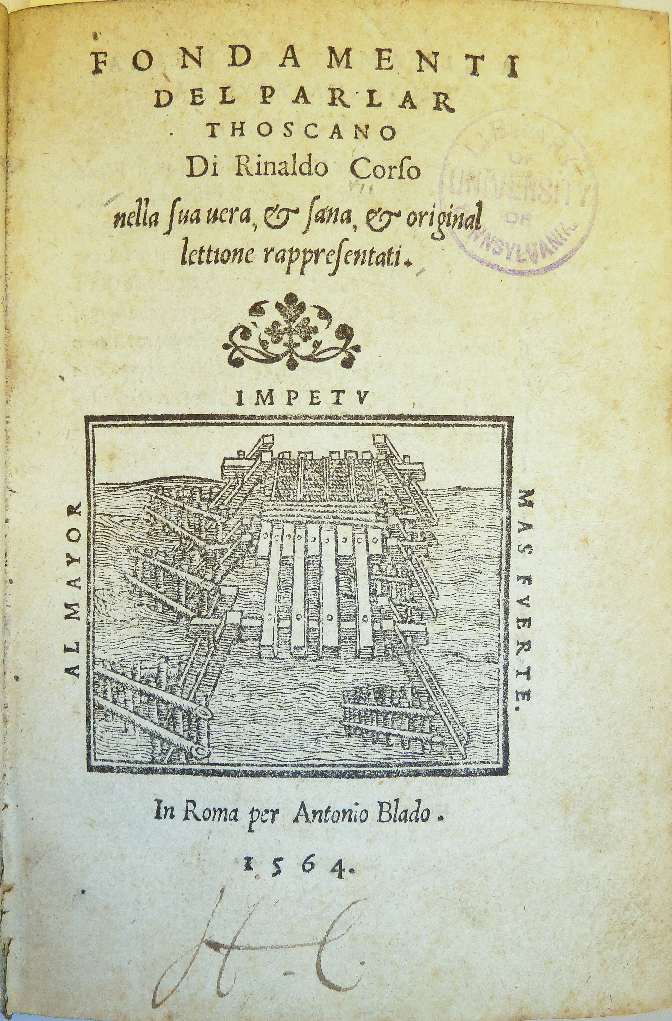 The title page of the book Fondamenti del parlar Thoscano by Rinaldo Corso, printed in Rome by Antonio Blado in 1564. Image digitised by the University of Pennsylvania Libraries, with call number IC55 C8185 549f 1564.